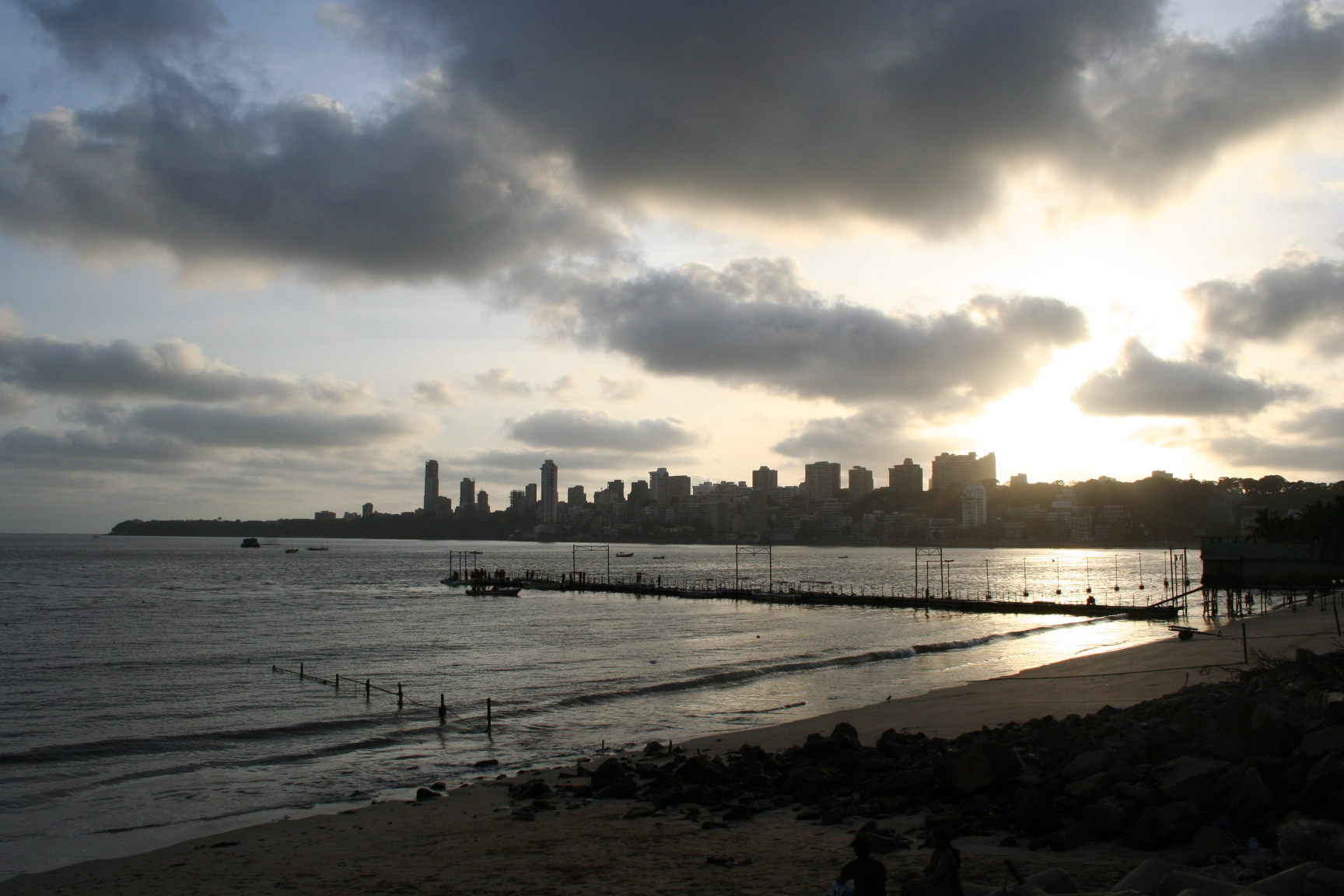 The upmarket neighbourhoods of Walkeshwar and Nepean Sea Road as seen from Marine drive.